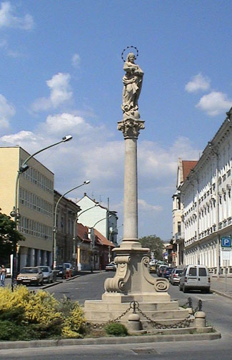 Maria column (Mug Mary). Miskolc, Hungary